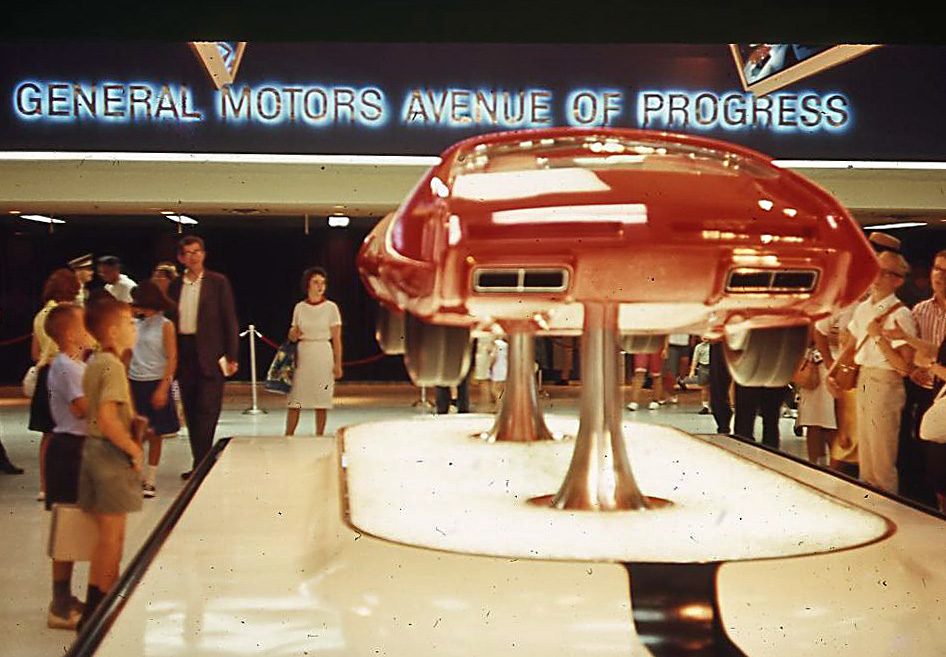 "General Motors Avenue of Progress" with concept car "GM-X Stiletto" on display at 1964 New York World's Fair. This reminds me of GM cars sold in the 60's. Camaro? My sons. both of whom now drive foreign cars, are in the Kodachrome, probably taken with a Fujica.